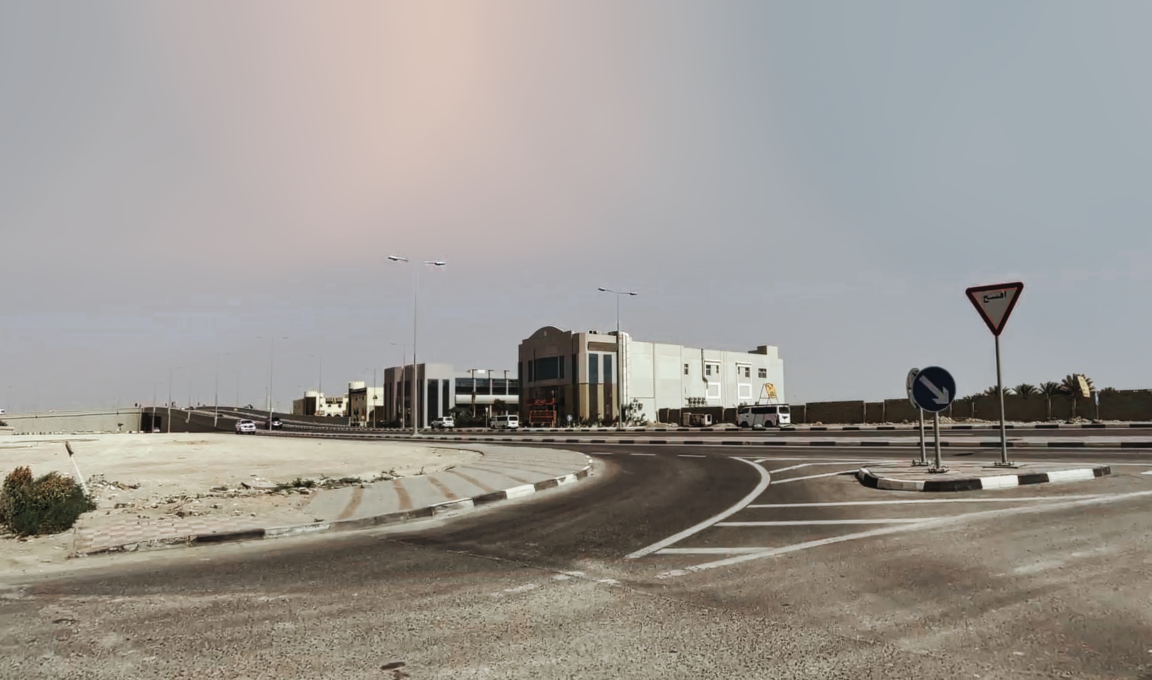 View of Umm Salal Mohammed Road. Umm Salal Municipality, Qatar.